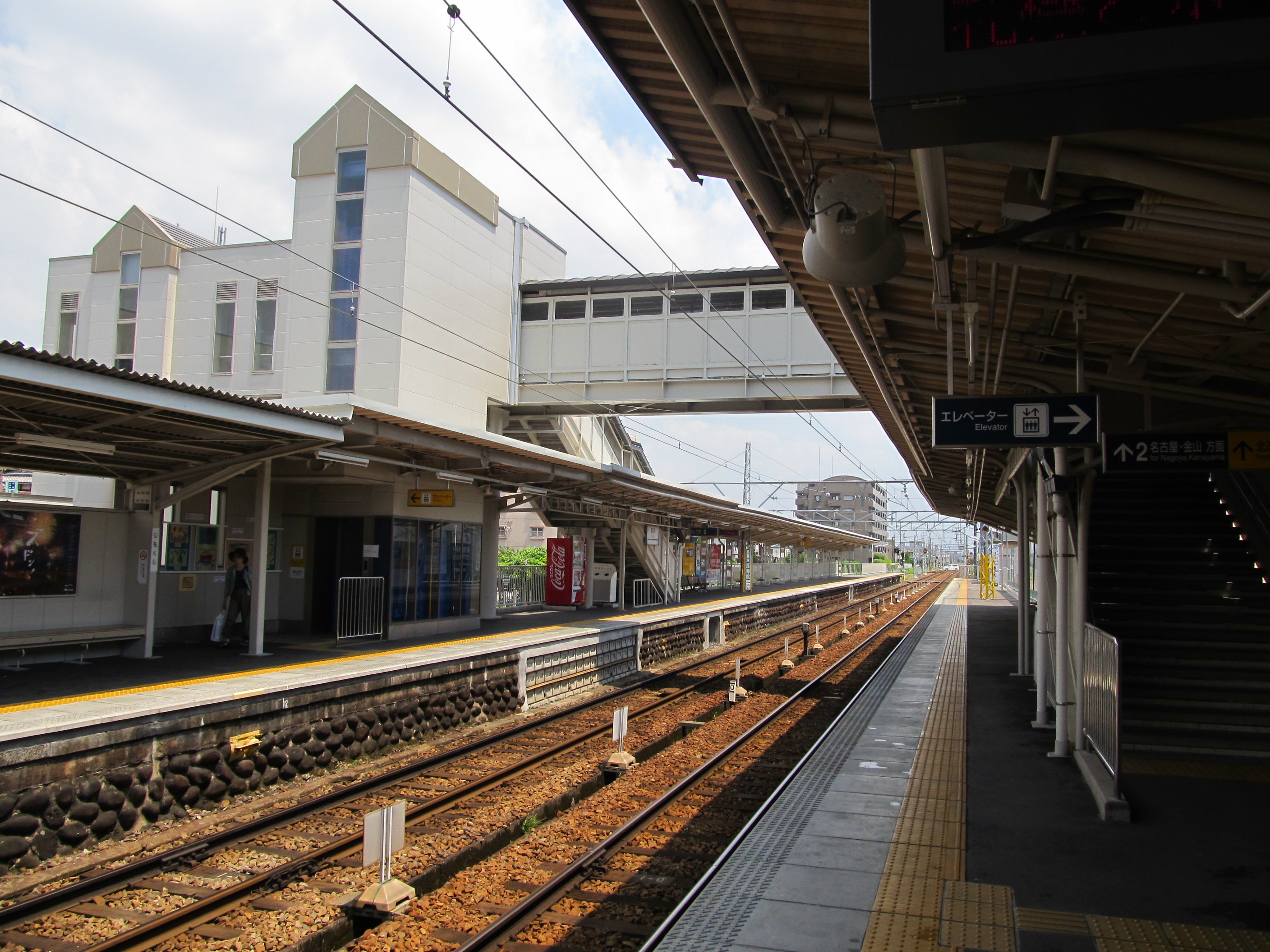 Nagoya Railroad Tsushima Line Jimokuji Station Platform